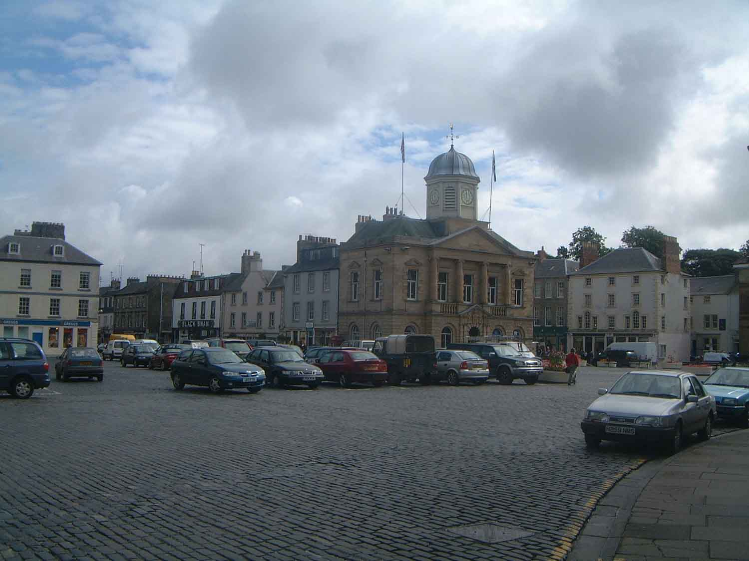 Town centre of Kelso, Scotland Personal photograph taken by Mick Knapton on the 24th August 2004